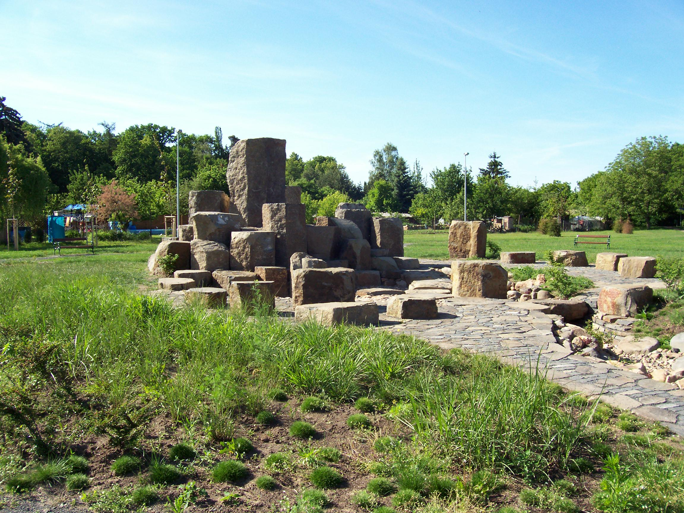 Rest stop with stone scenery in Jiráskovy sady park in Louny.